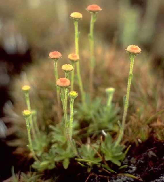 Keysseria helenae USFWS photo